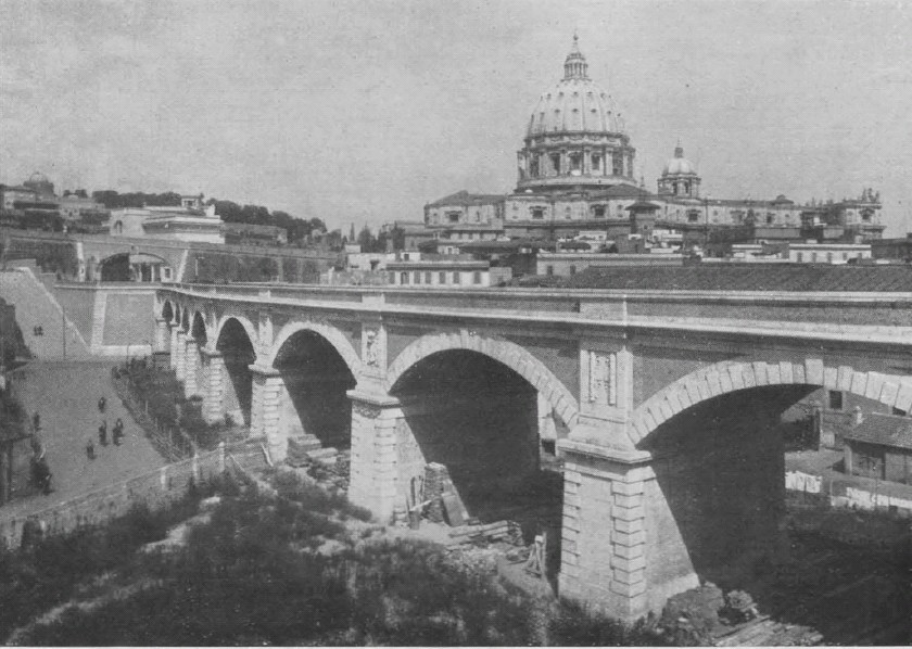 "Eight-span viaduct carrying the Vatican Railway over the Gelsomino valley up to the sliding-door gateway into Vatican precincts. St. Peter's in the background"